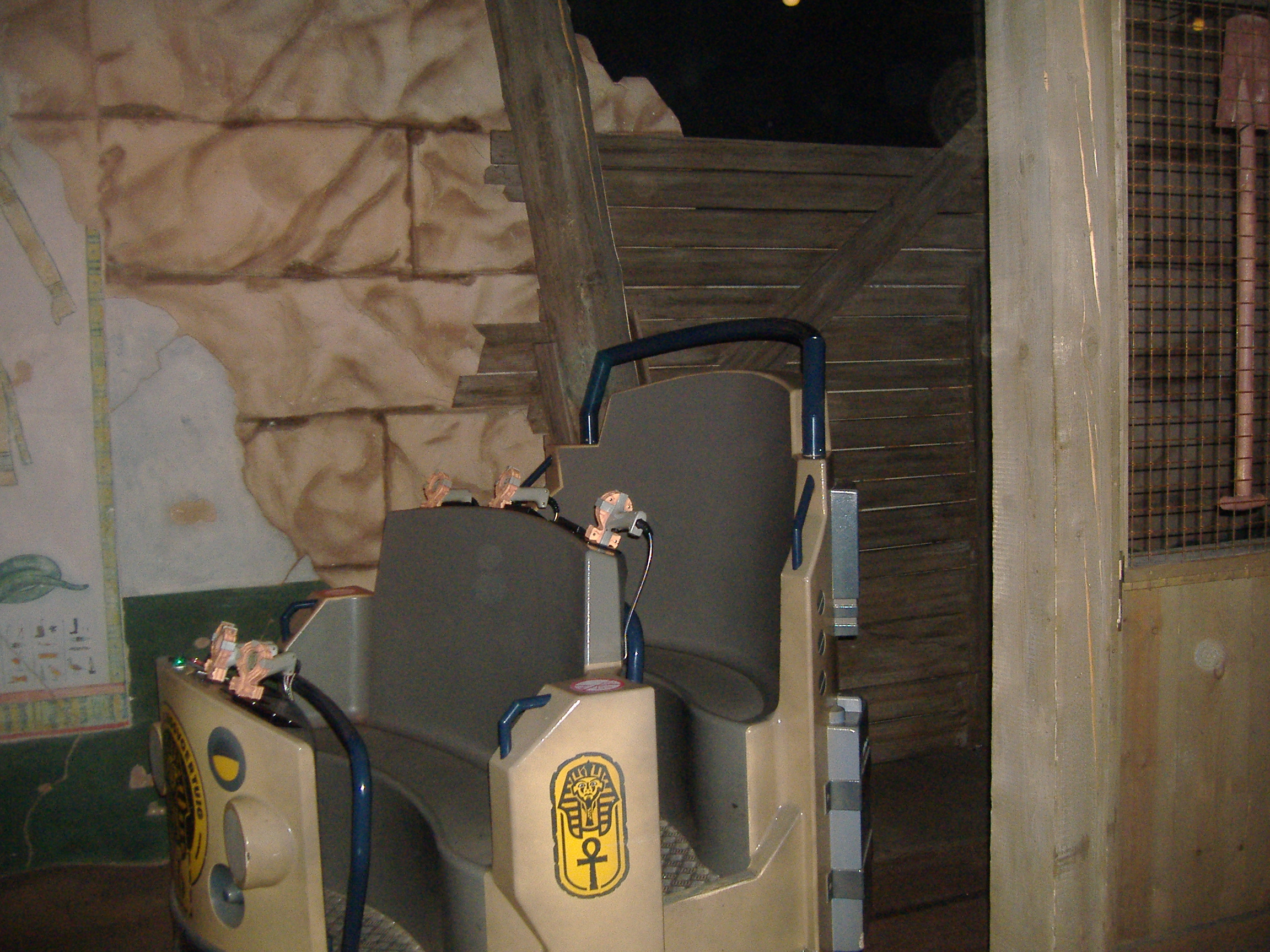 Walibi Belgium, the dark ride Challenge of Tutankhamon